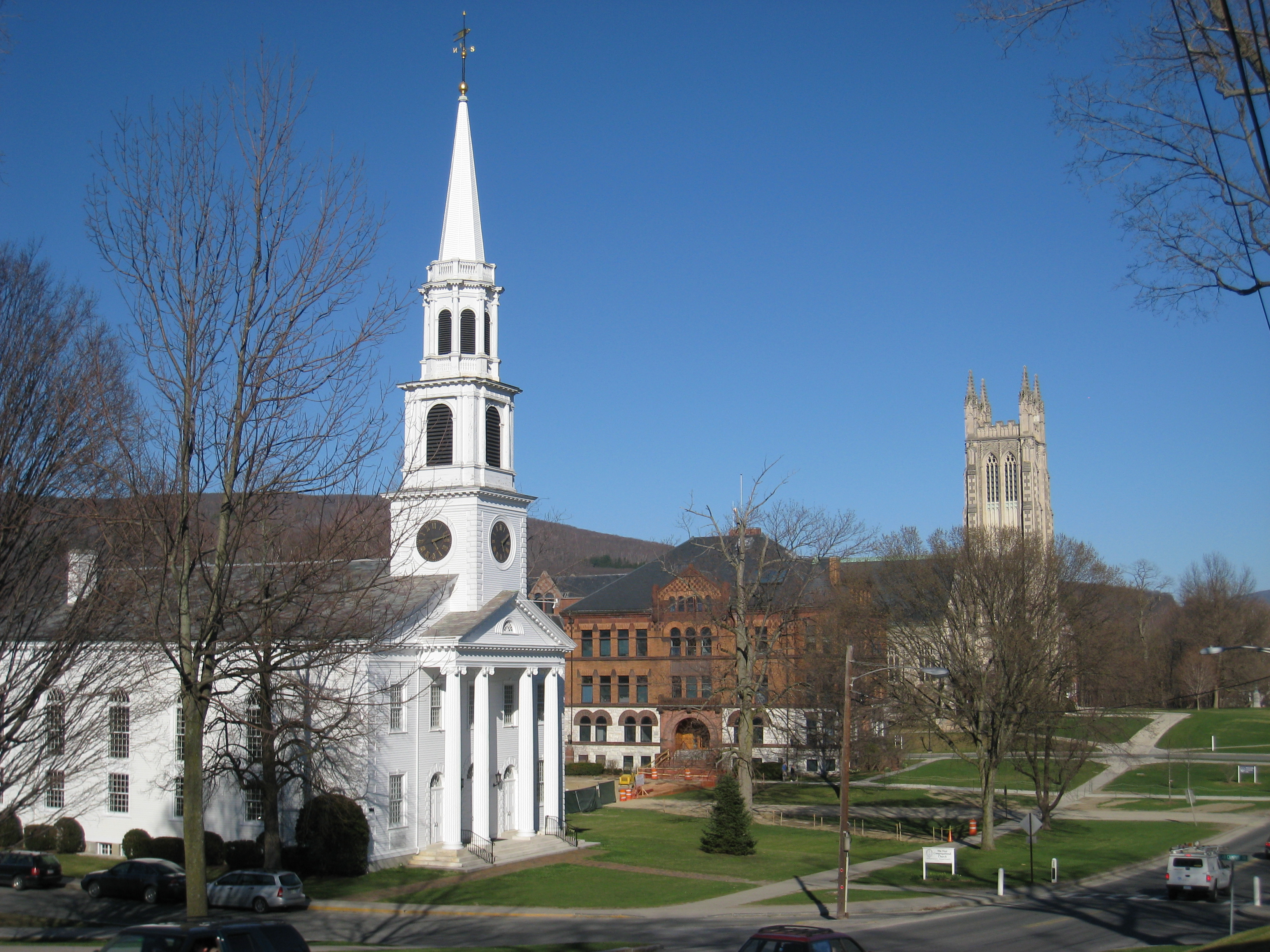 Williamstown, Massachusetts, USA - View along Route 2.